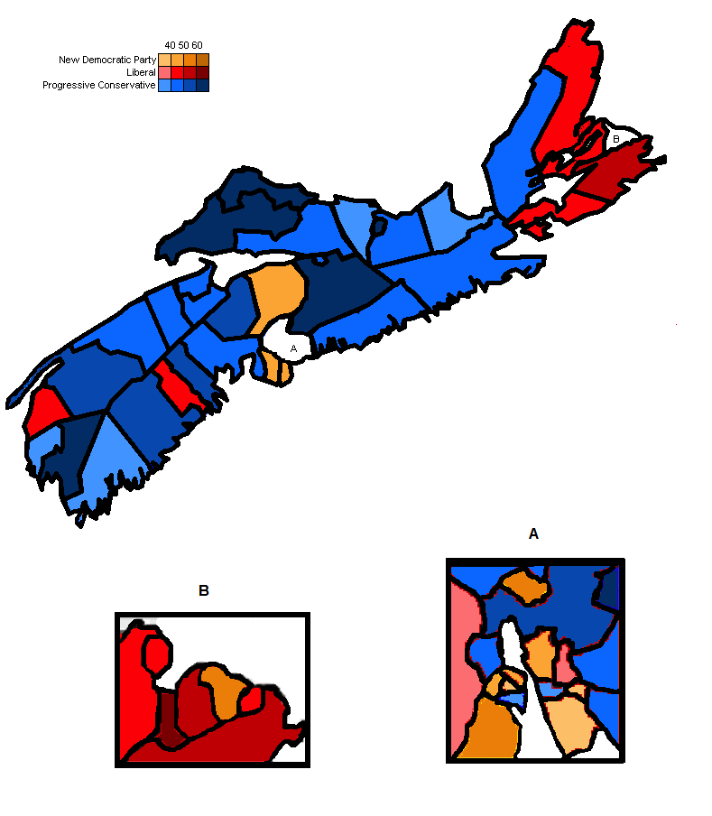 A provincial electoral map of Nova Scotia in 1999